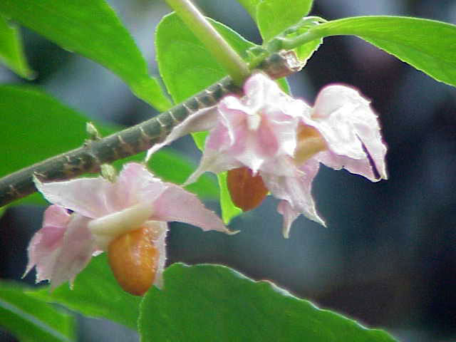 Species: Drymonia sp. Family: Gesneriaceae Image No. 2